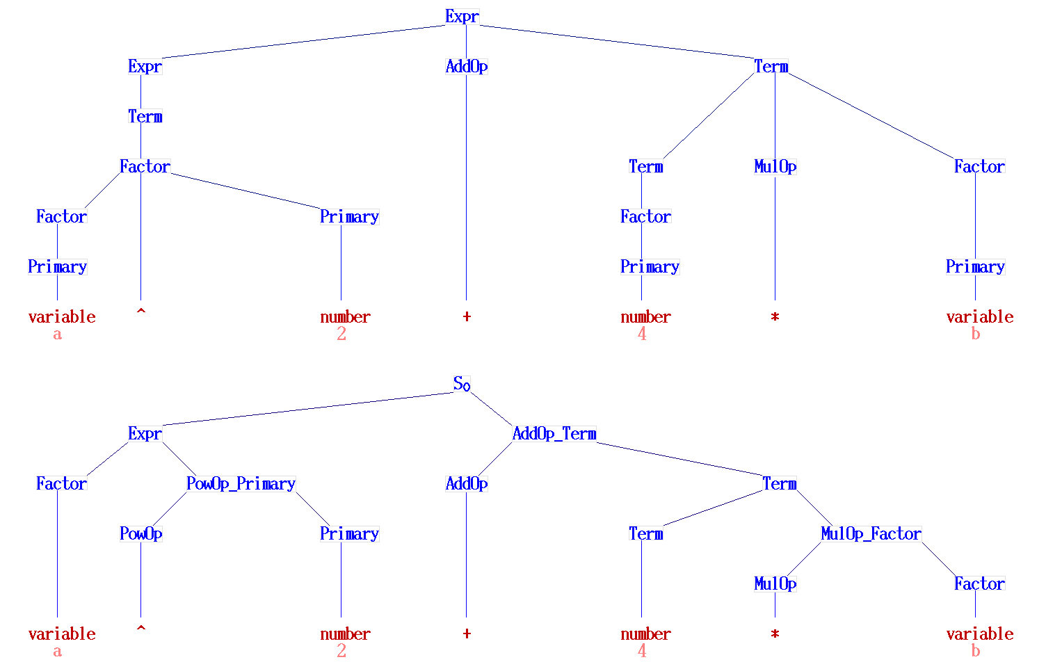 Top: abstract syntax tree of the arithmetic expression "a2+4b" wrt. a simplified version (given here) of the expression grammars used in imperative programming languages like C or Algol60. Bottom: syntax tree of the same expression wrt. the corresponding Chomsky normal form grammar; each internal node has two internal child nodes, or one leaf child node.